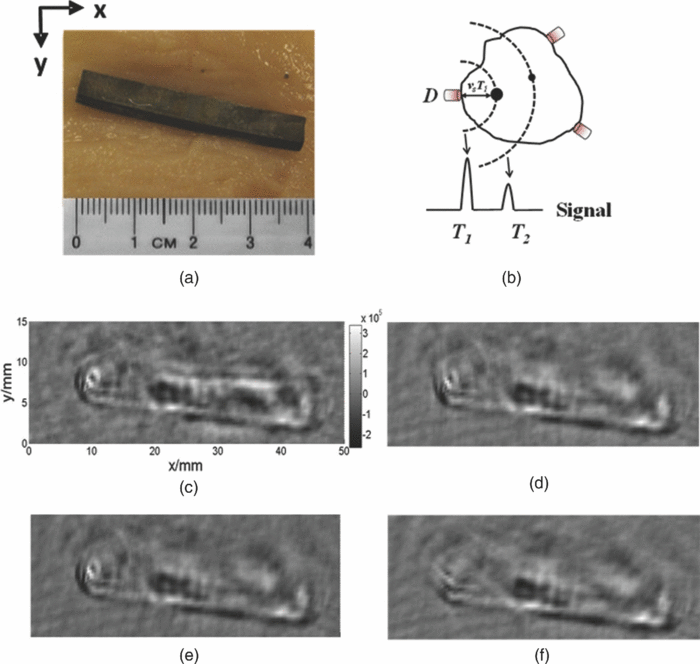 (a) Photograph of the sample composed of a piece of lead rod imbedded in chicken breast tissue. (b) Illustration of x-ray acoustic imaging reconstruction. The ultrasonic transducer at position D records the x-ray acoustic signals on a spherical surface with radius V s T. (c) Reconstructed XACT images of the sample in 360°. (d)–(f) Images reconstructed from the data corresponding to the phantom in Fig. 4(a) with different detection angles 180°, 135°, and 90°, respectively.